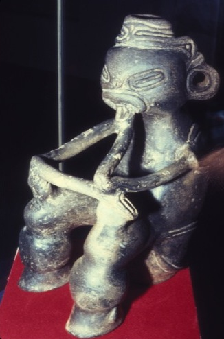 INDIAN FIGURE DEPICTING A NATIVE PLACING HIS HAND IN HIS THROAT TO INDUCE VOMITING